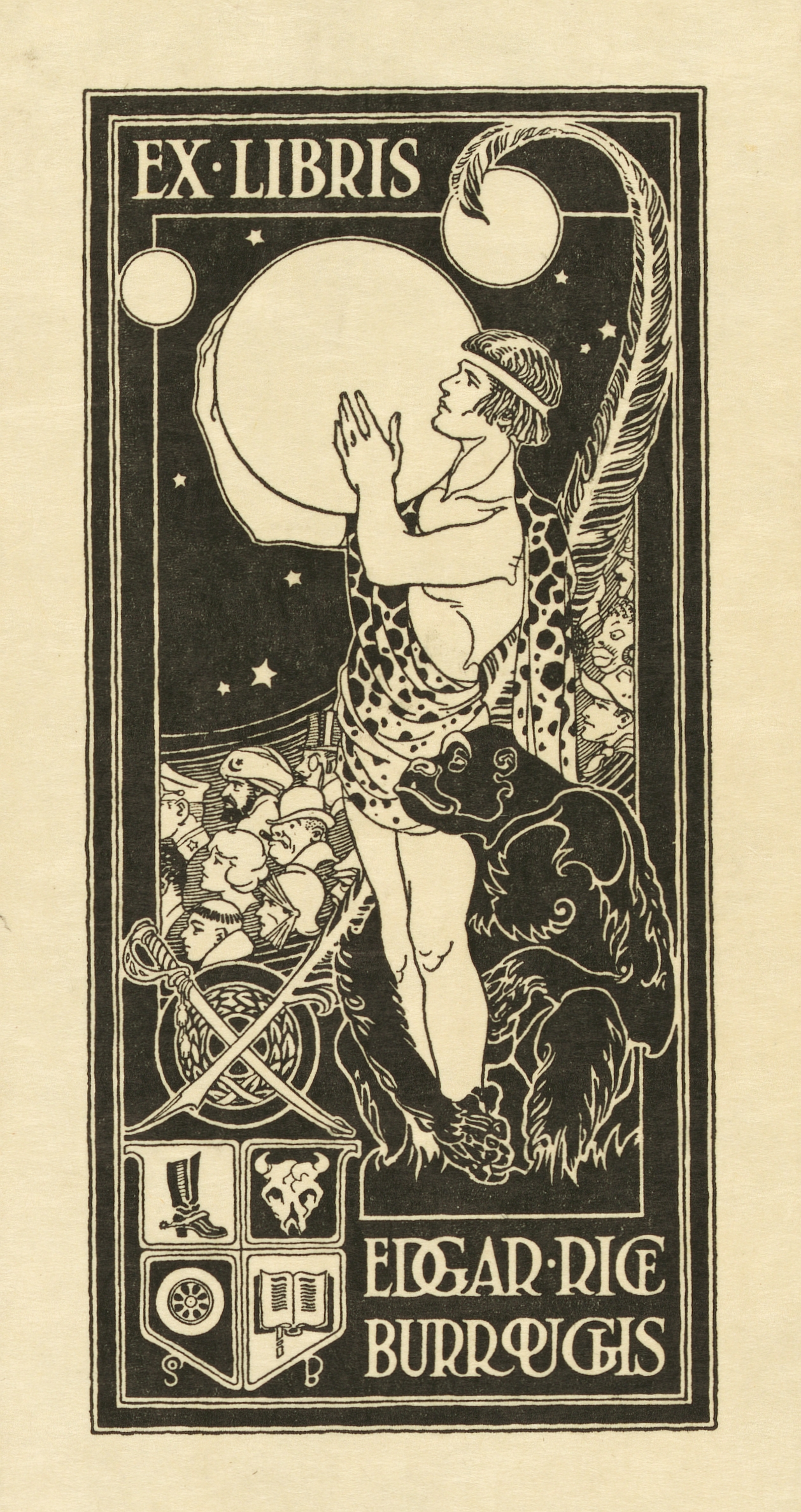 Bookplate of American writer Edgar Rice Burroughs (1875-1950) showing Tarzan holding the planet Mars, surrounded by other characters from Burroughs' stories and symbols relating to the author's personal interests and career. Associated media: File:Letter from Edgar Rice Burroughs to Ruthven Deane 1922.jpg explaining the design of his bookplate.